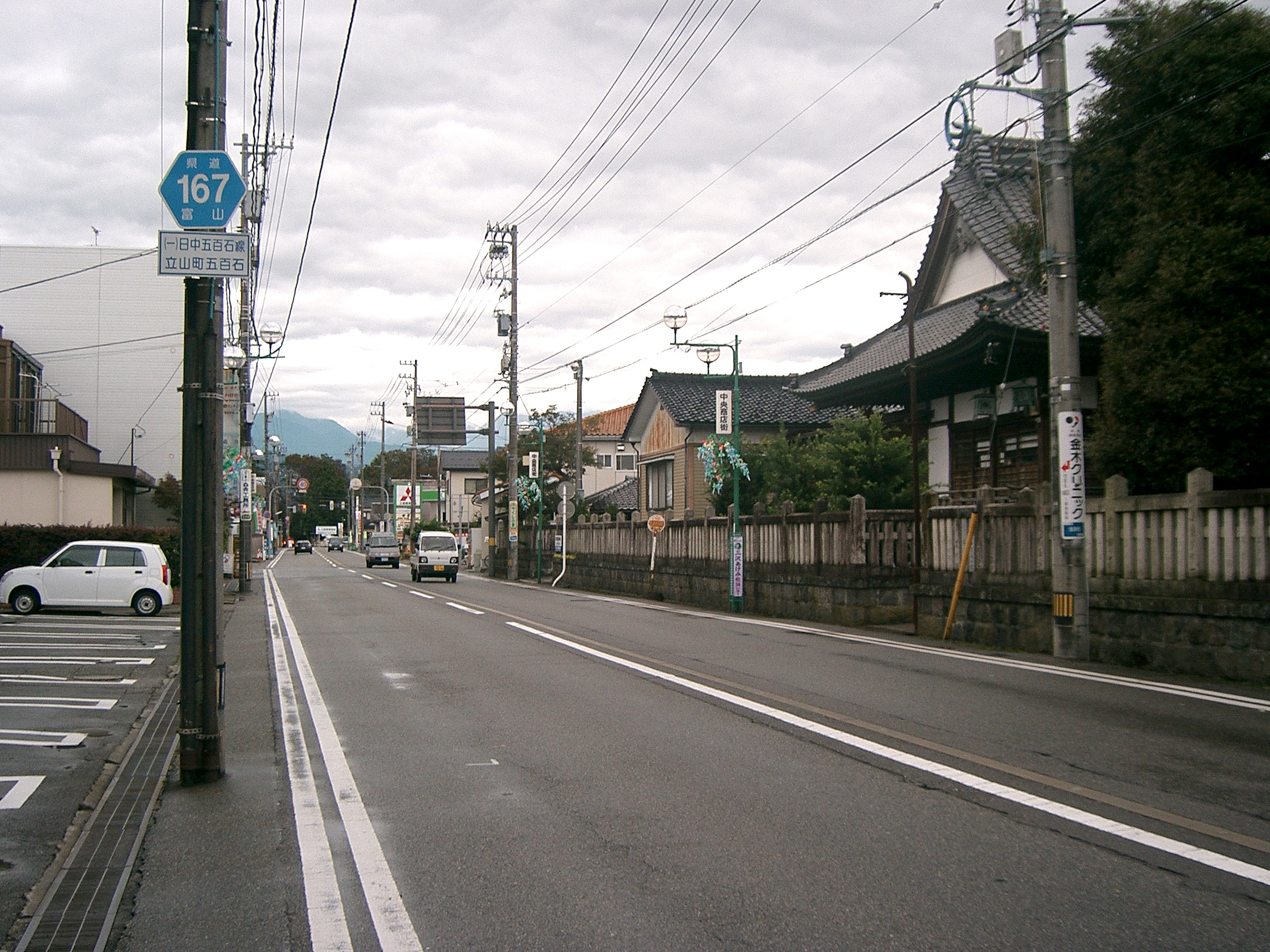 Toyama prefectural road 167 Nitchu-Gohyakukoku line. Looking east from Tenmangu-mae intersection, Gohyakukoku, Tateyama town.